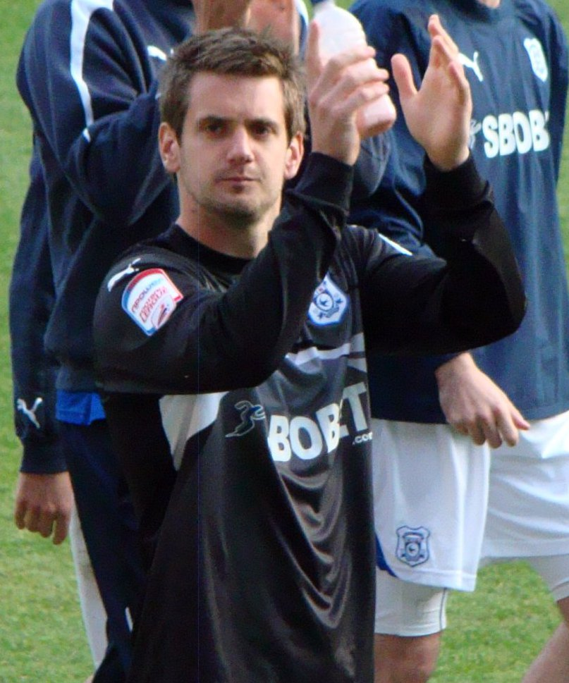 Tom Heaton 02/05/11 Cardiff V Middlesbrough, Championship, Cardiff City Stadium, Cardiff, Wales